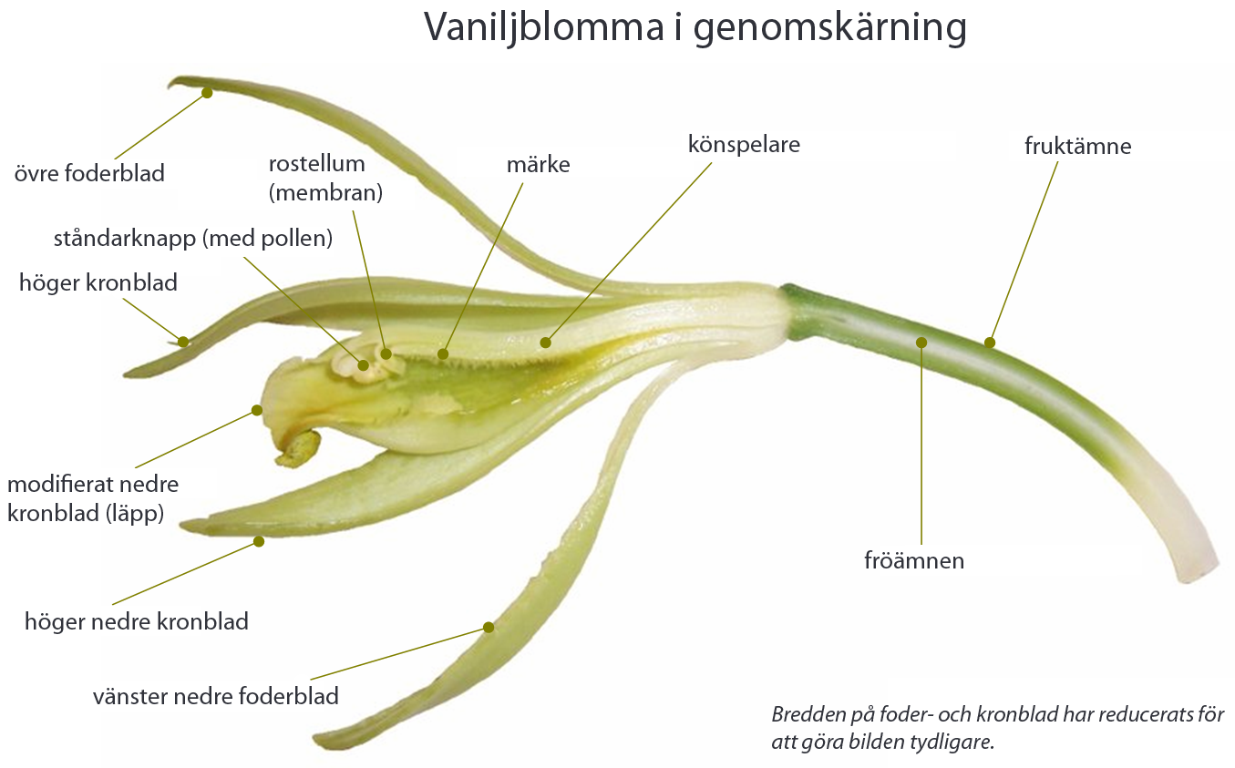 Longitudinal section of a flower (Swedish description)